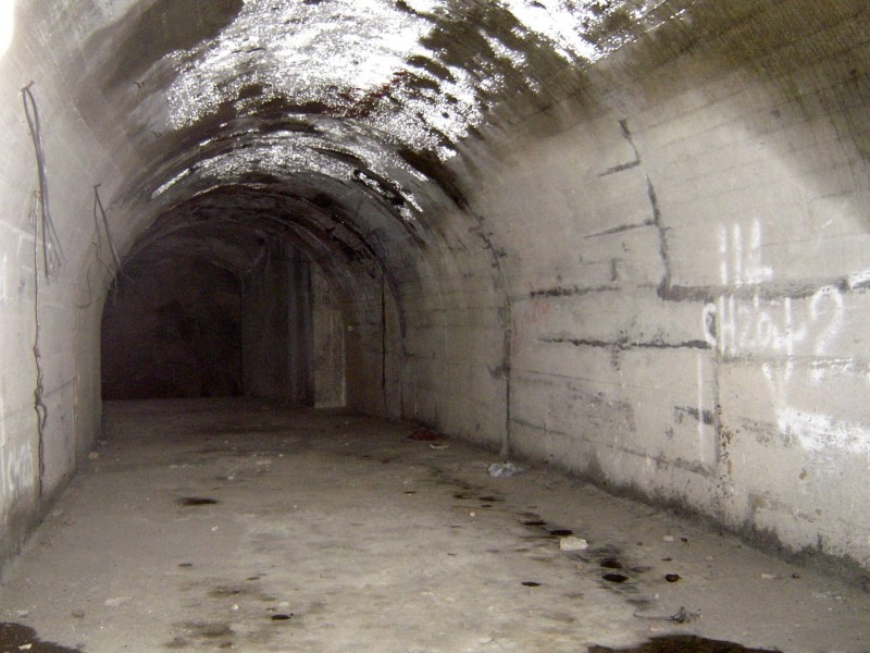 Interior of ARP tunnel under Mount Parish, taken through a hole on the wall closing Portal 73